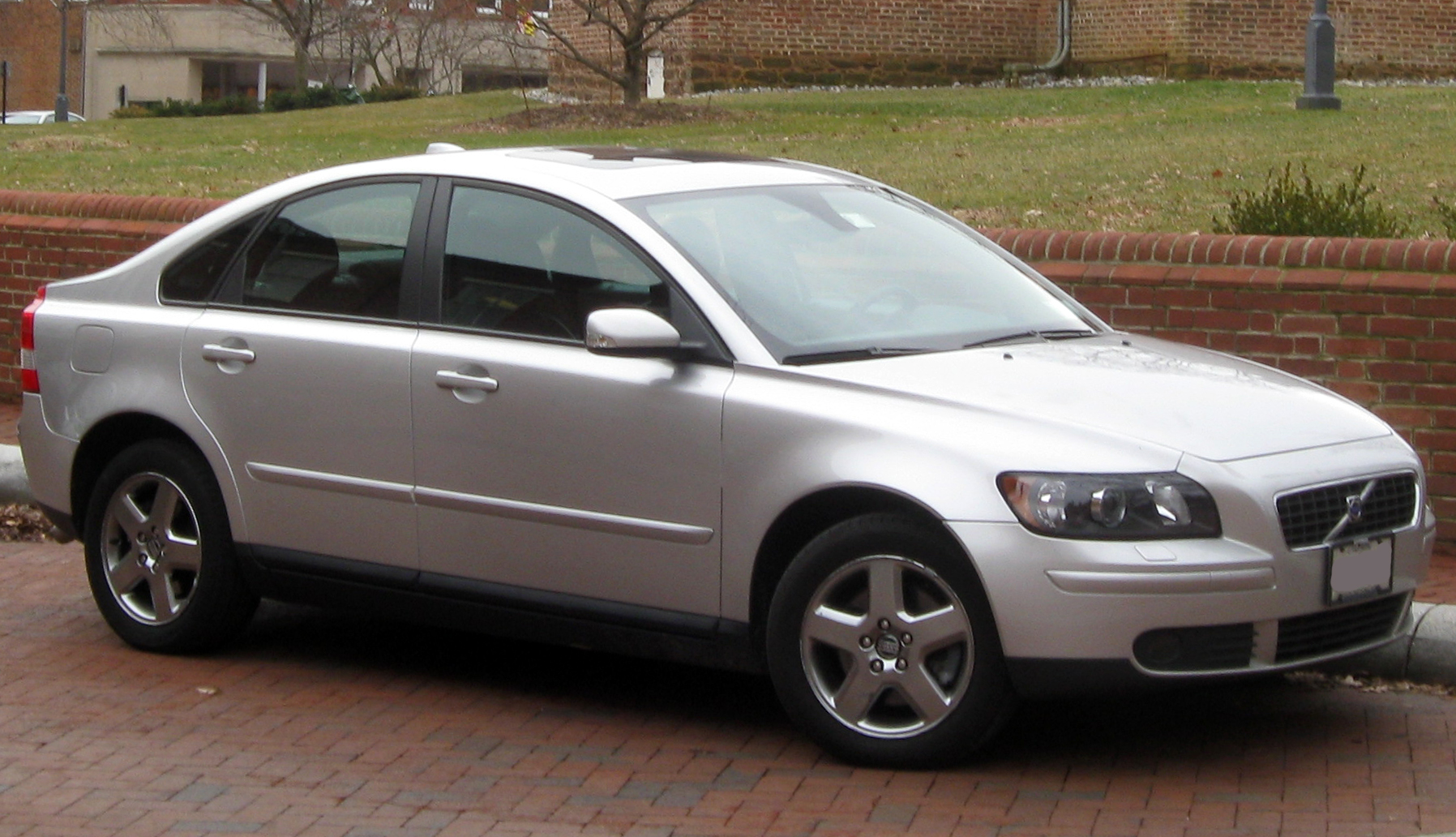 2004-2007 Volvo S40 photographed in Annapolis, Maryland, USA.